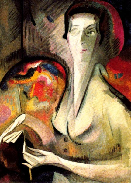 Self-Portrait (1917), Oil on canvas, 32 x 23 1/2 in. The National Museum of Women in the Arts